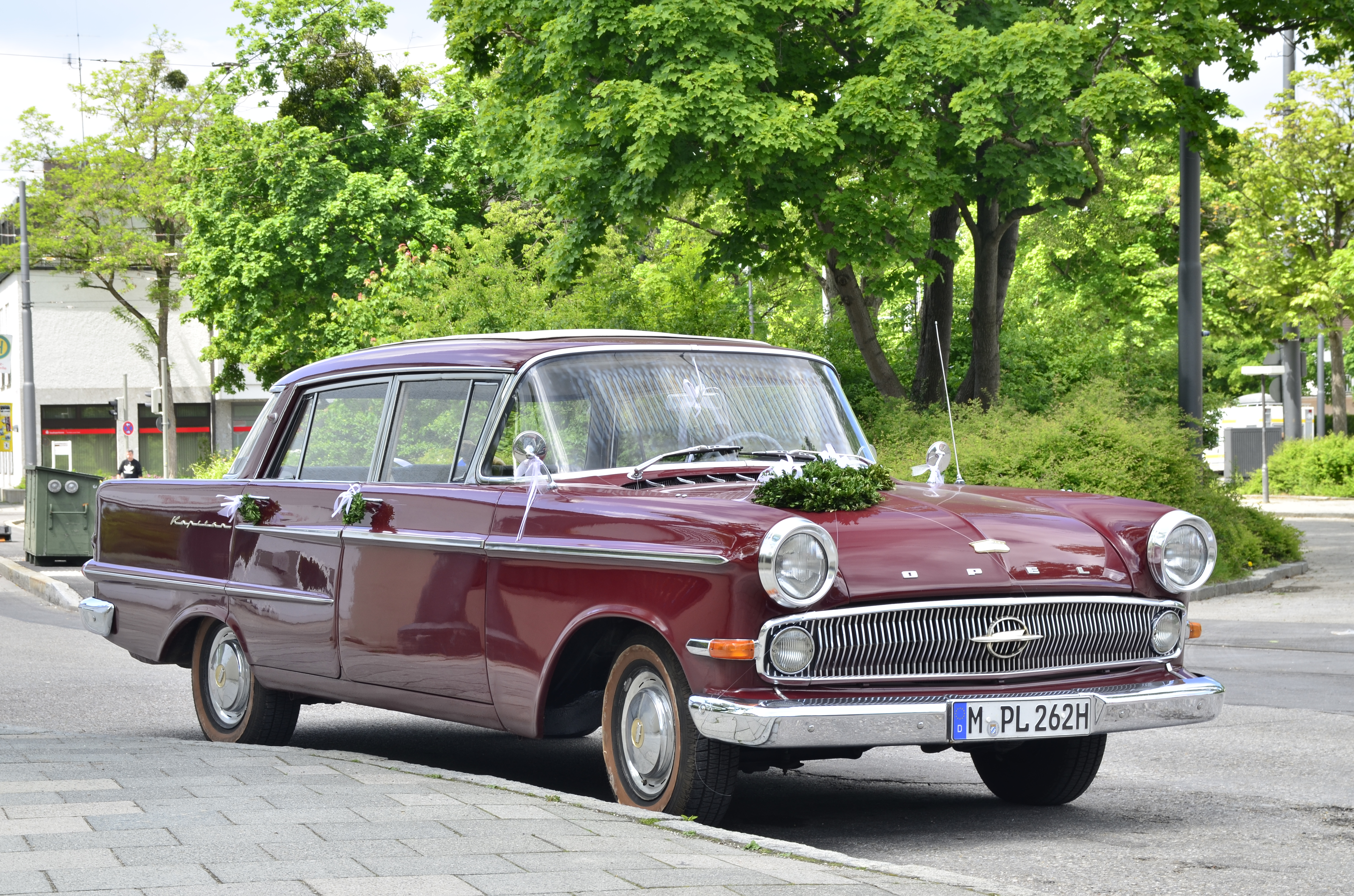 Opel Kapitän Car